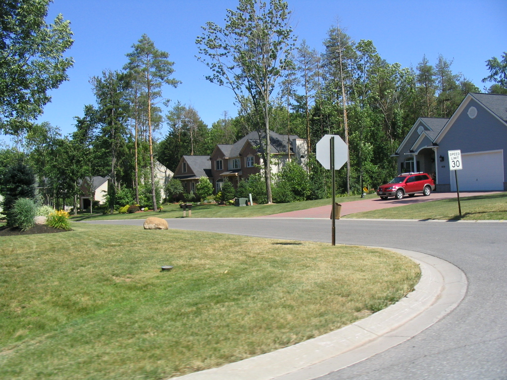 photo of a Lysander neighborhood in suburban Syracuse, NY, taken by me on July 2, 2004